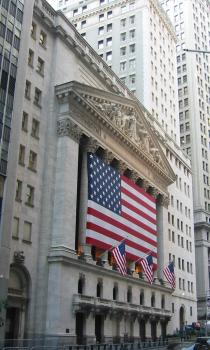 Photo of New York Stock Exchange